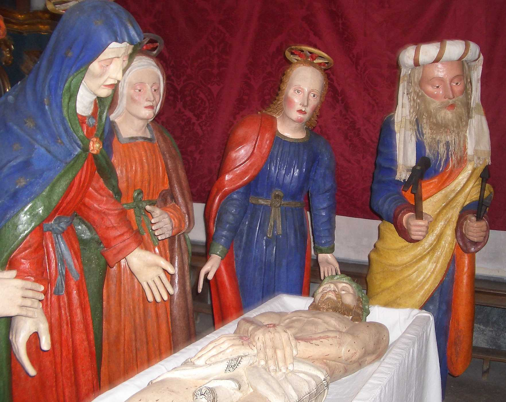 Unknown artist frrom Valsesia, Lamentation over the Dead Christ, church of "Annunziata", Boccioleto, Valsesia (Italy)